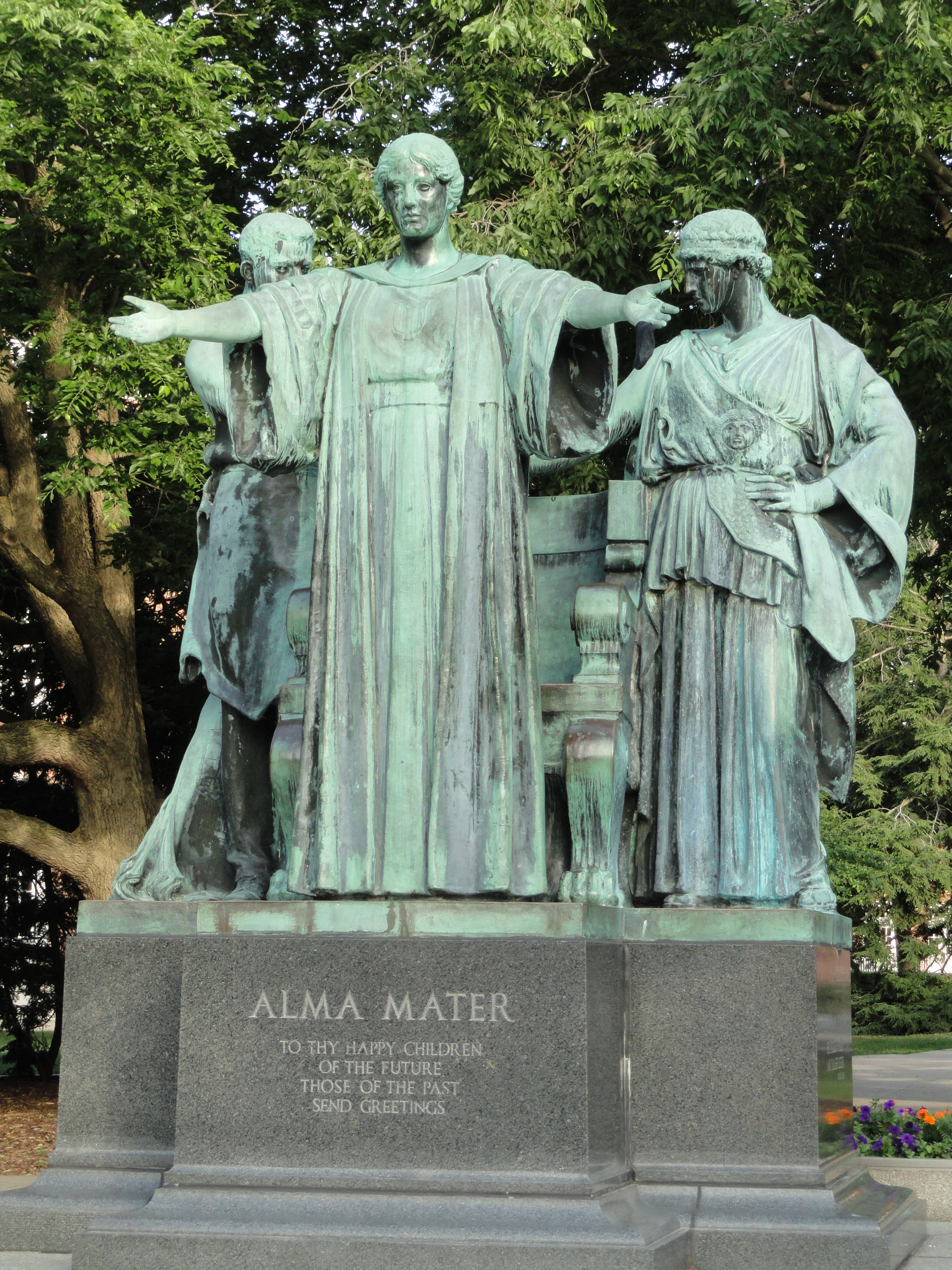 Alma Mater by Lorado Taft, on the campus of the University of Illinois at Urbana-Champaign (UIUC), Urbana-Champaign, Illinois, USA.